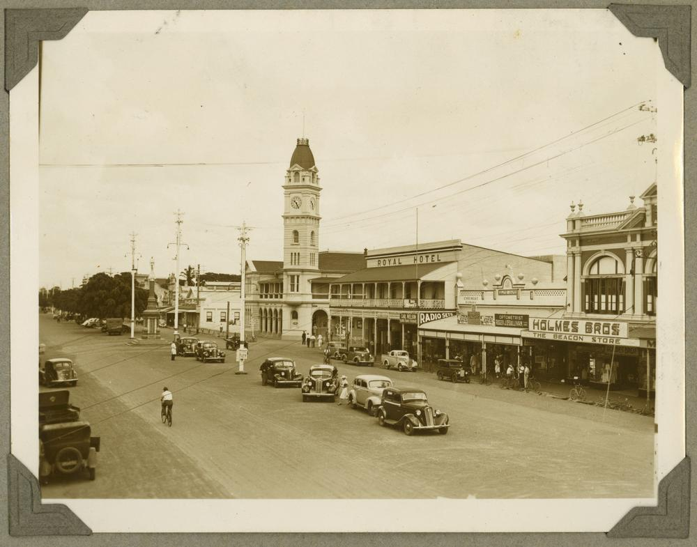 Clock tower in the street, Bundaberg, ca. 1930. Bundaberg is situated at the southern tip of the Great Barrier Reef. Four hours drive north from Brisbane, Bundaberg is located in the heart of a rich sugar and horticultural belt. Bundaberg is identified with the locally manufactured Austoft Cane harvesters and famous Bundaberg Rum. Street scene shows the post office clock tower, Royal Hotel, Holmes Bros store and several other buildings in the street. There are cars parked on both sides of the street and also down the middle.